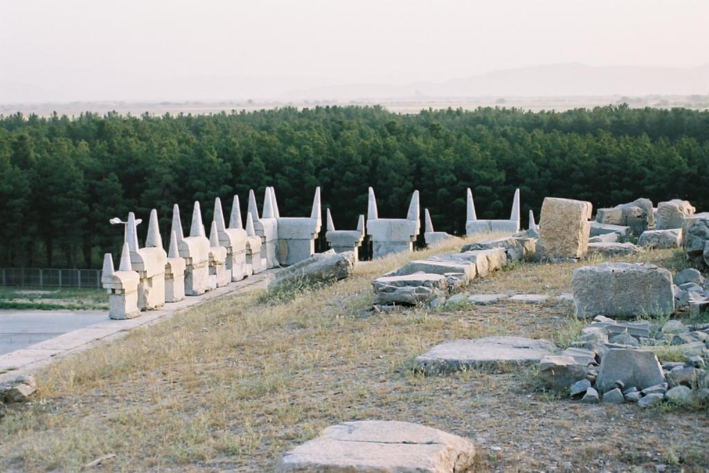 Horn shaped sculpted stones, found buried at the foot of the terrace; Persepolis, Iran.